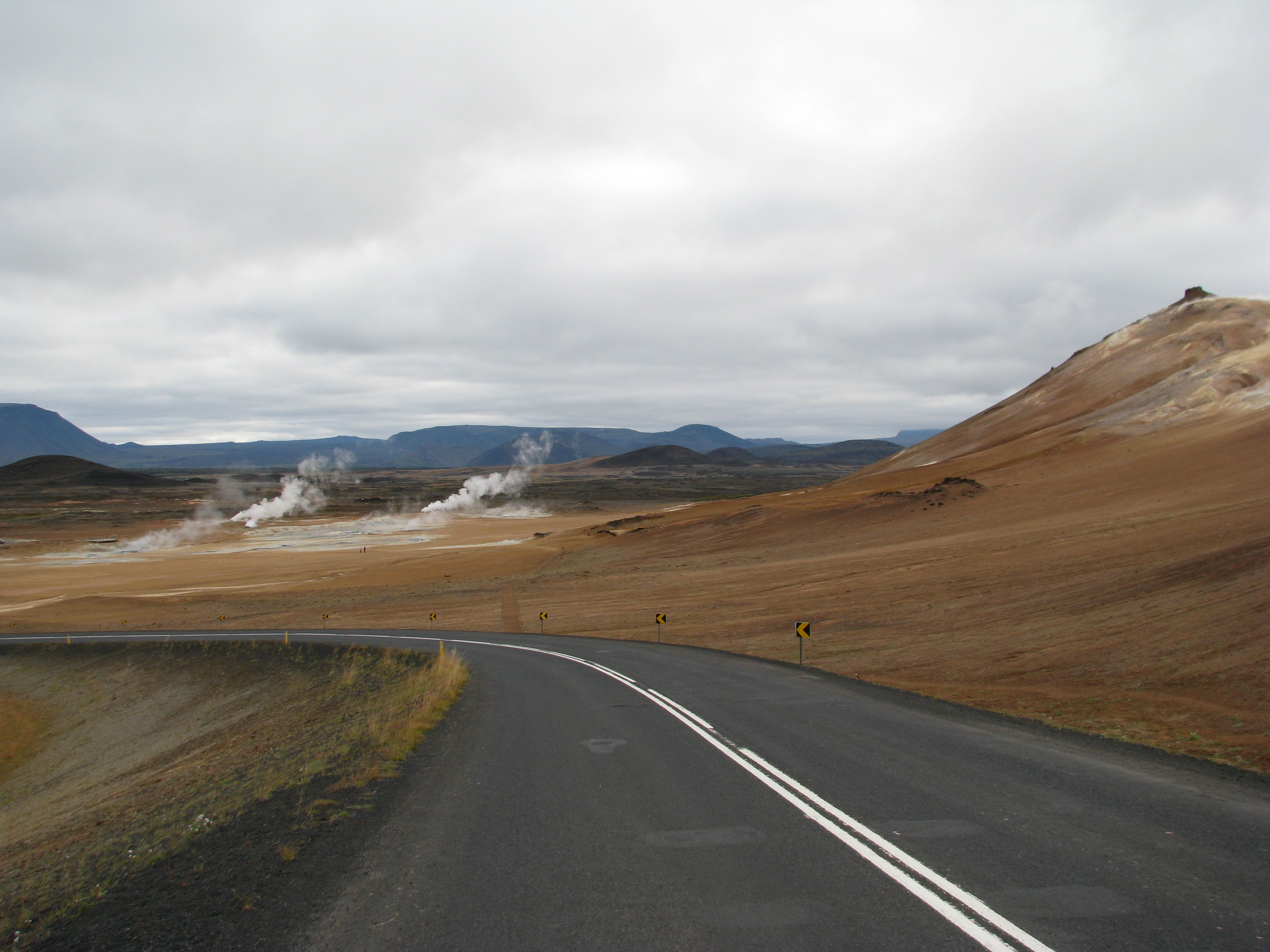 Hverir, Iceland, Hot springs